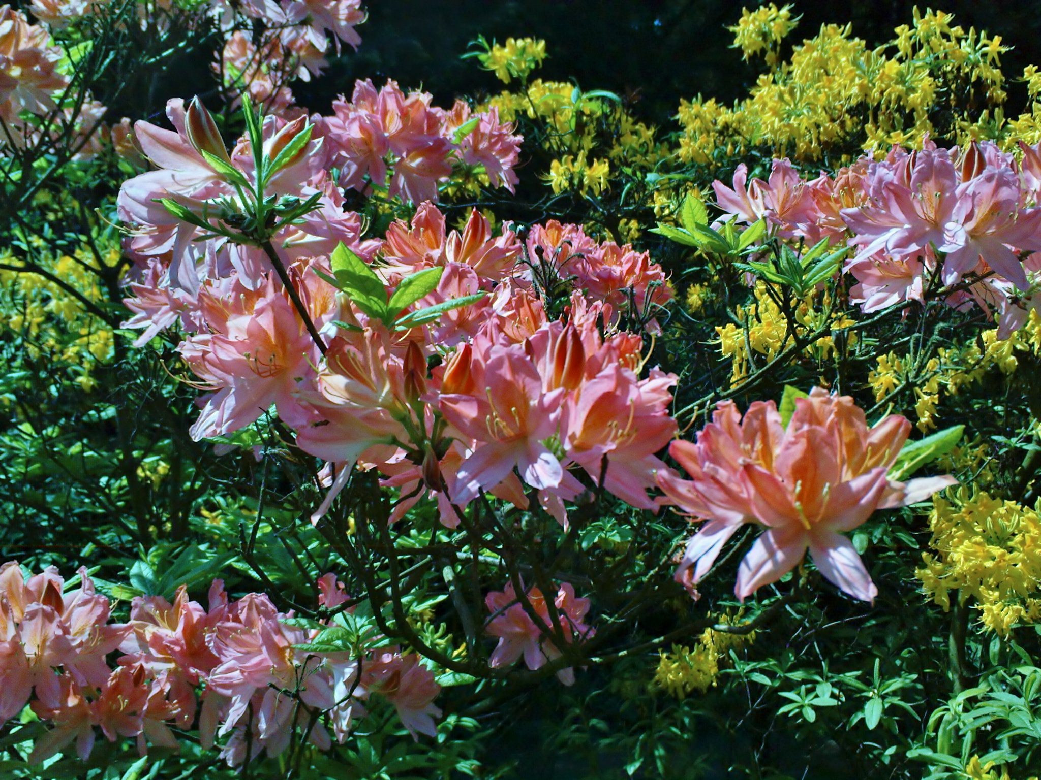 Kraków - blooming rhododendrons in the Botanical Garden of the Collegium Śniadeckiego of the Jagiellonian University